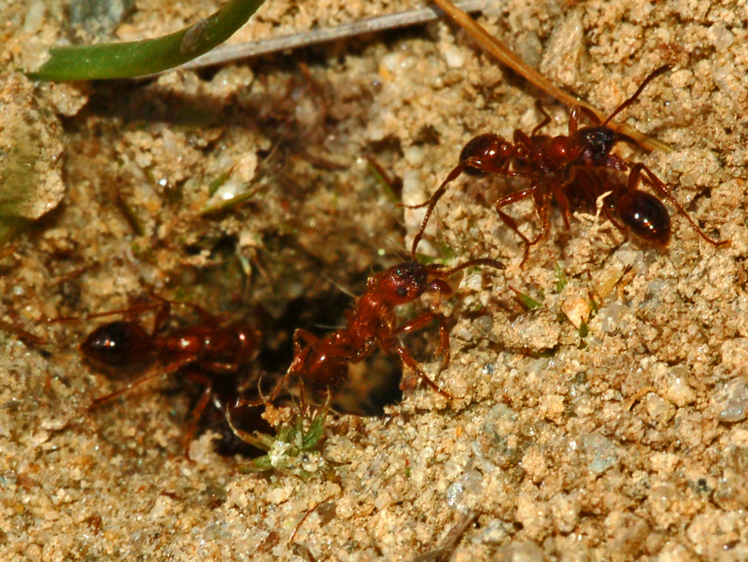 A nest of Manica rubida. La Thuile, Torino, Italy